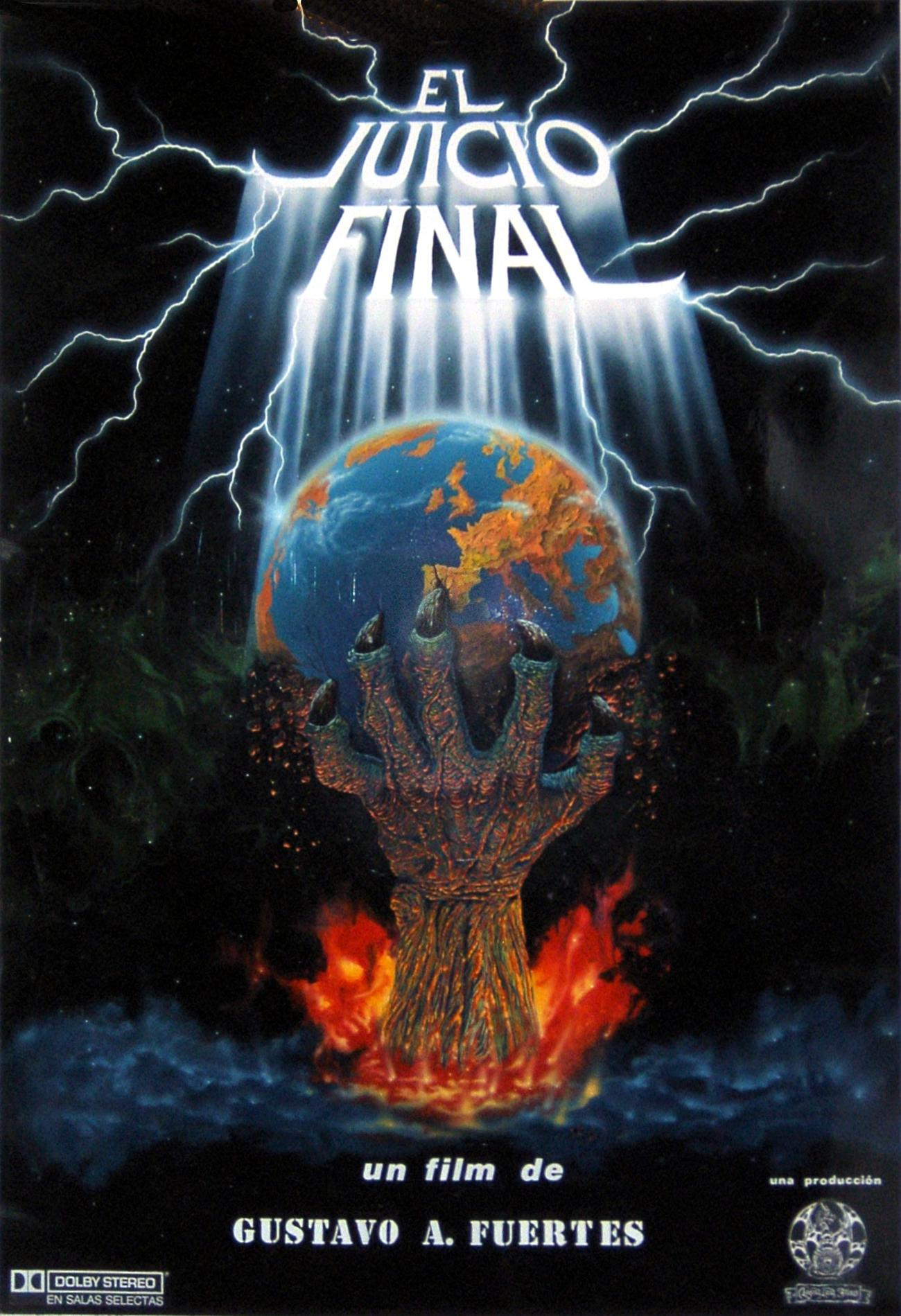 Film poster of the short film from 1992 directed by Gustavo Fuertes.